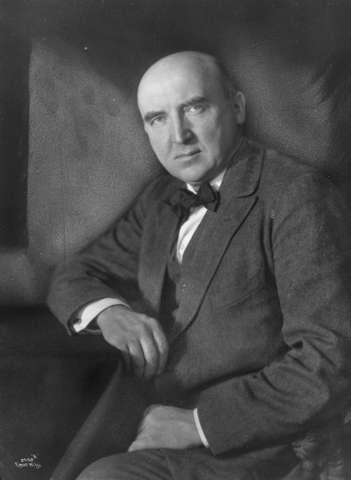 Norwegian stage actor Harald Stormoen